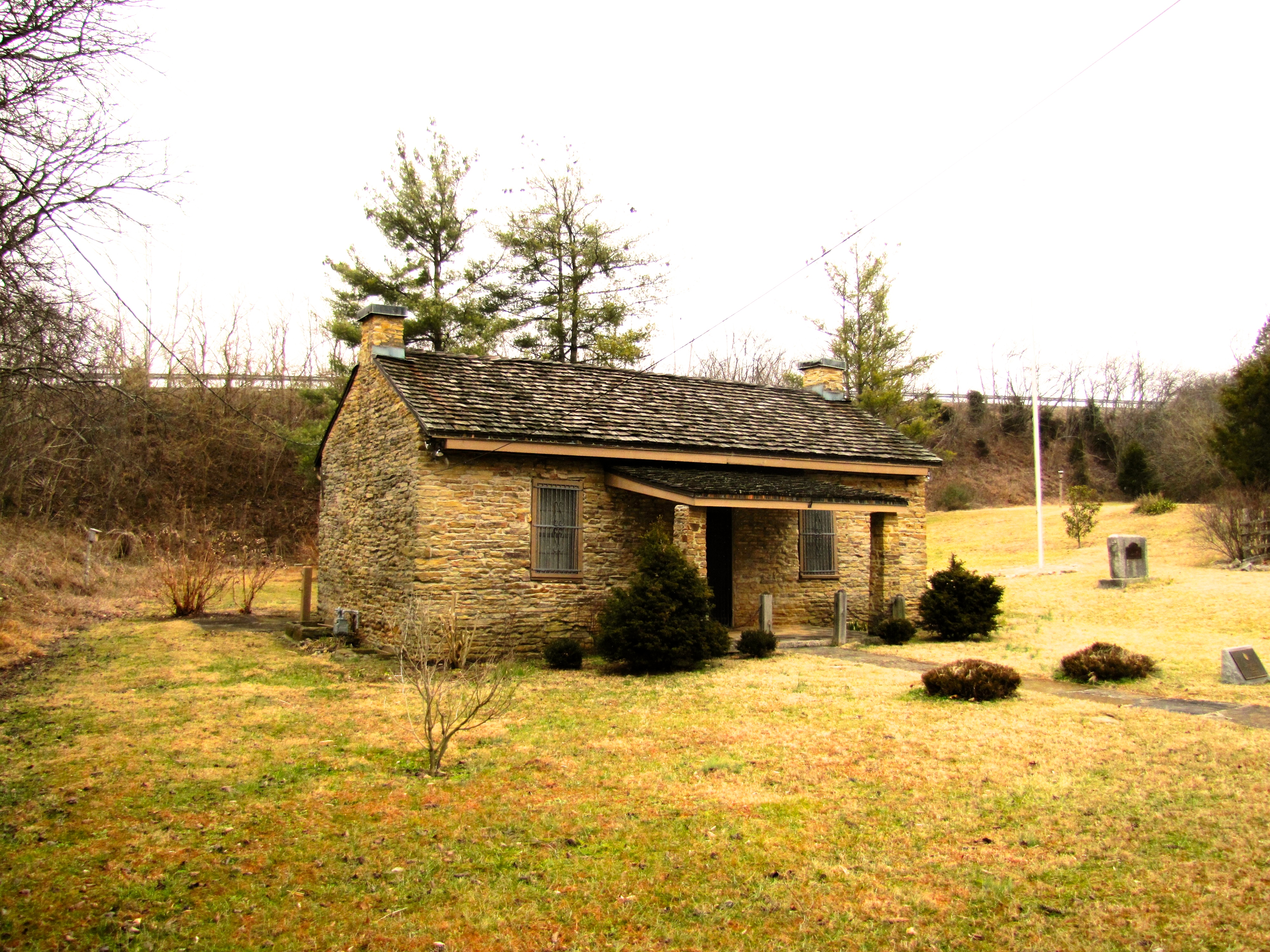 The Rock House in Sparta, Tennessee, located in the Southeastern United States. The Rock House was built in the late 1830s and served as a stage coach inn. The guardrail of US-70 spans the embankment in the background.